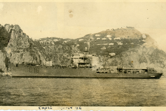 ITA C 16 Folaga (Capri 08-1944) DG MG